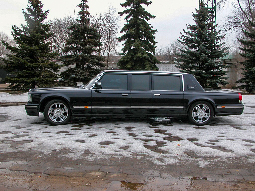 ZIL-4112R